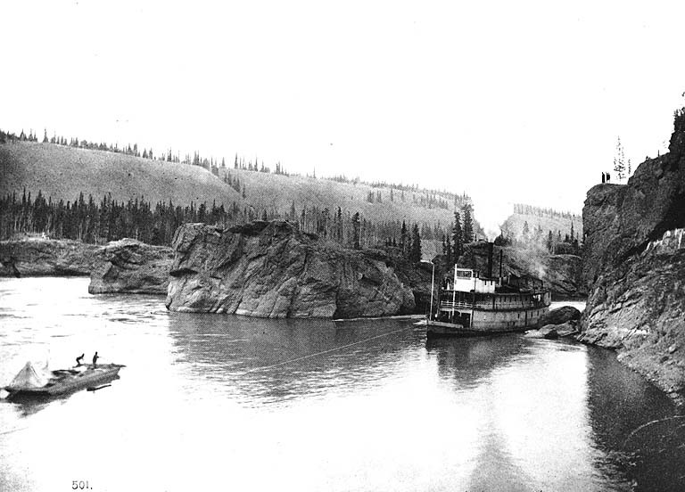 Caption on image: "Roping a steamer through Five Finger Rapids" . Klondike Gold Rush. Subjects (LCTGM): Rapids--Yukon--Yukon River; Rivers--Yukon; Steamboats--Yukon--Yukon River; Flatboats--Yukon--Yukon River Subjects (LCSH): Five Finger Rapids (Yukon River, Yukon)